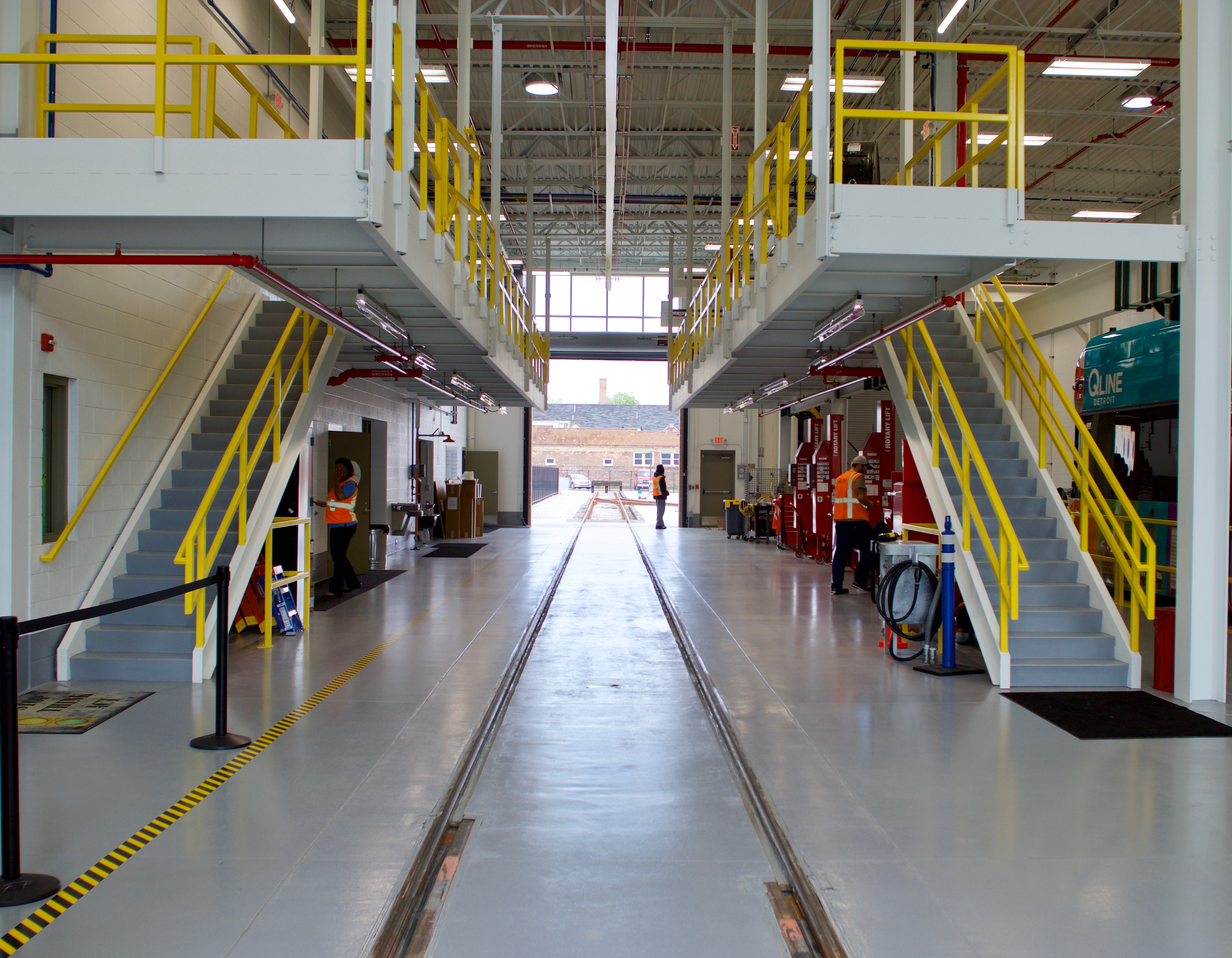 QLine maintenance facility in May 2017, eleven days before the opening of the line